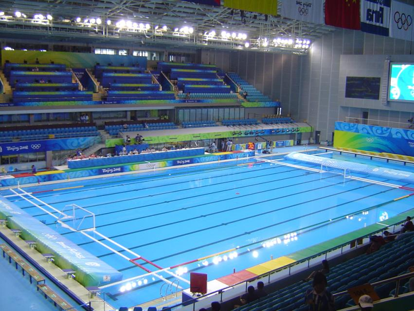 The Ying Tung Natatorium prepared for the water polo at the 2008 Summer Olympics.